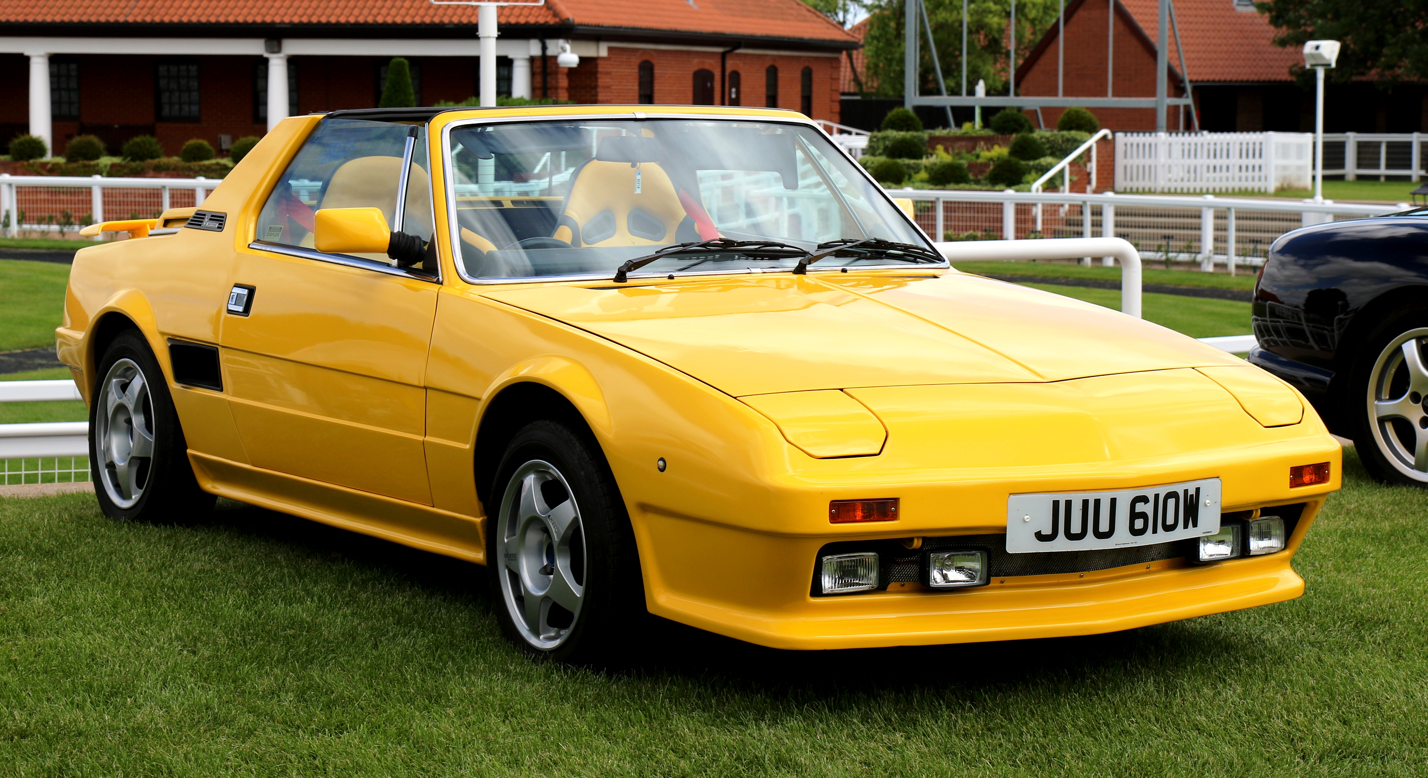 Fiat X1-9 1301cc registered GB March 1981